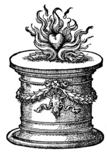 Printer's Device of Christian Egenolff (1502-1555). This printer's device is one of many that he used over his 27 years as a printer.